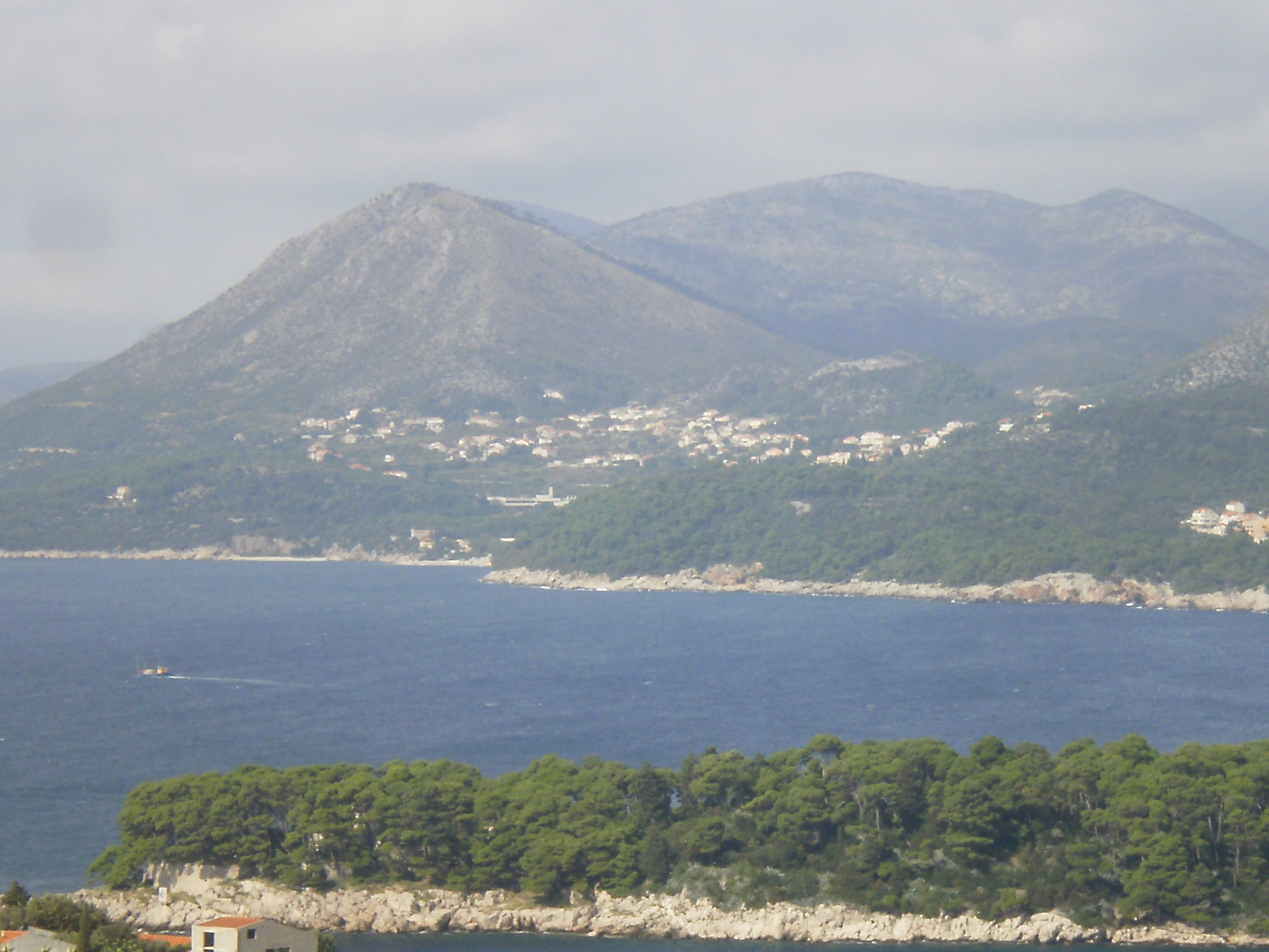 Orašac as seen from Lapad